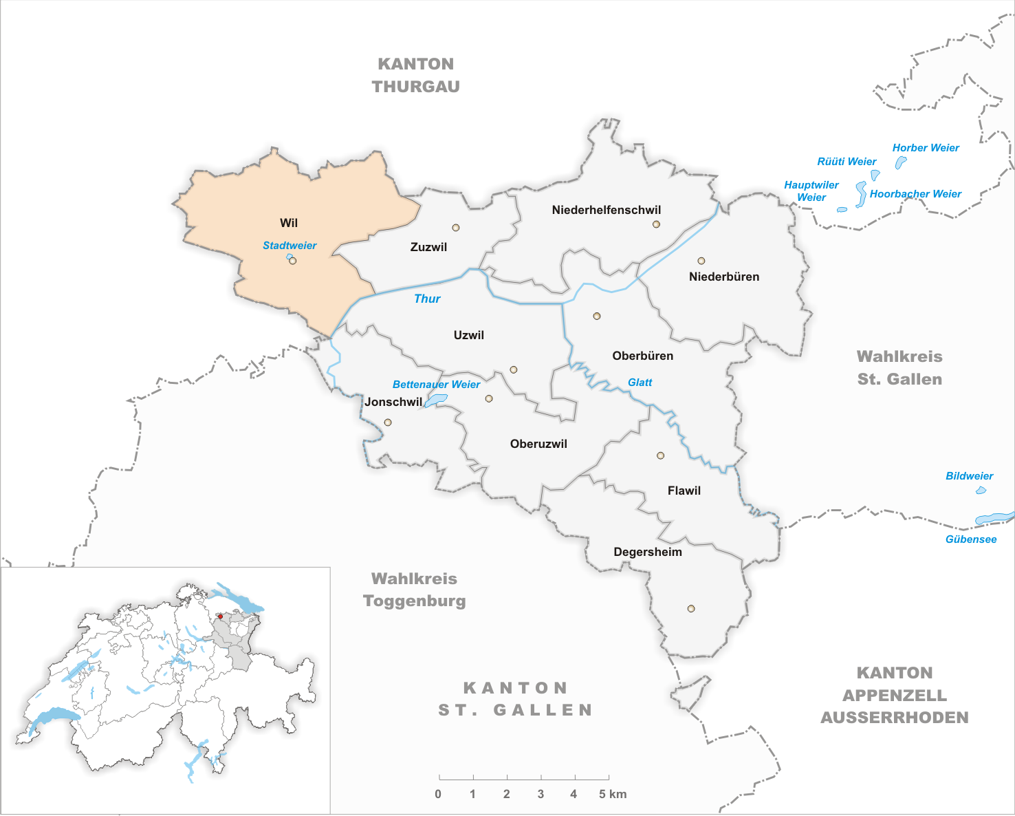 Municipality Wil